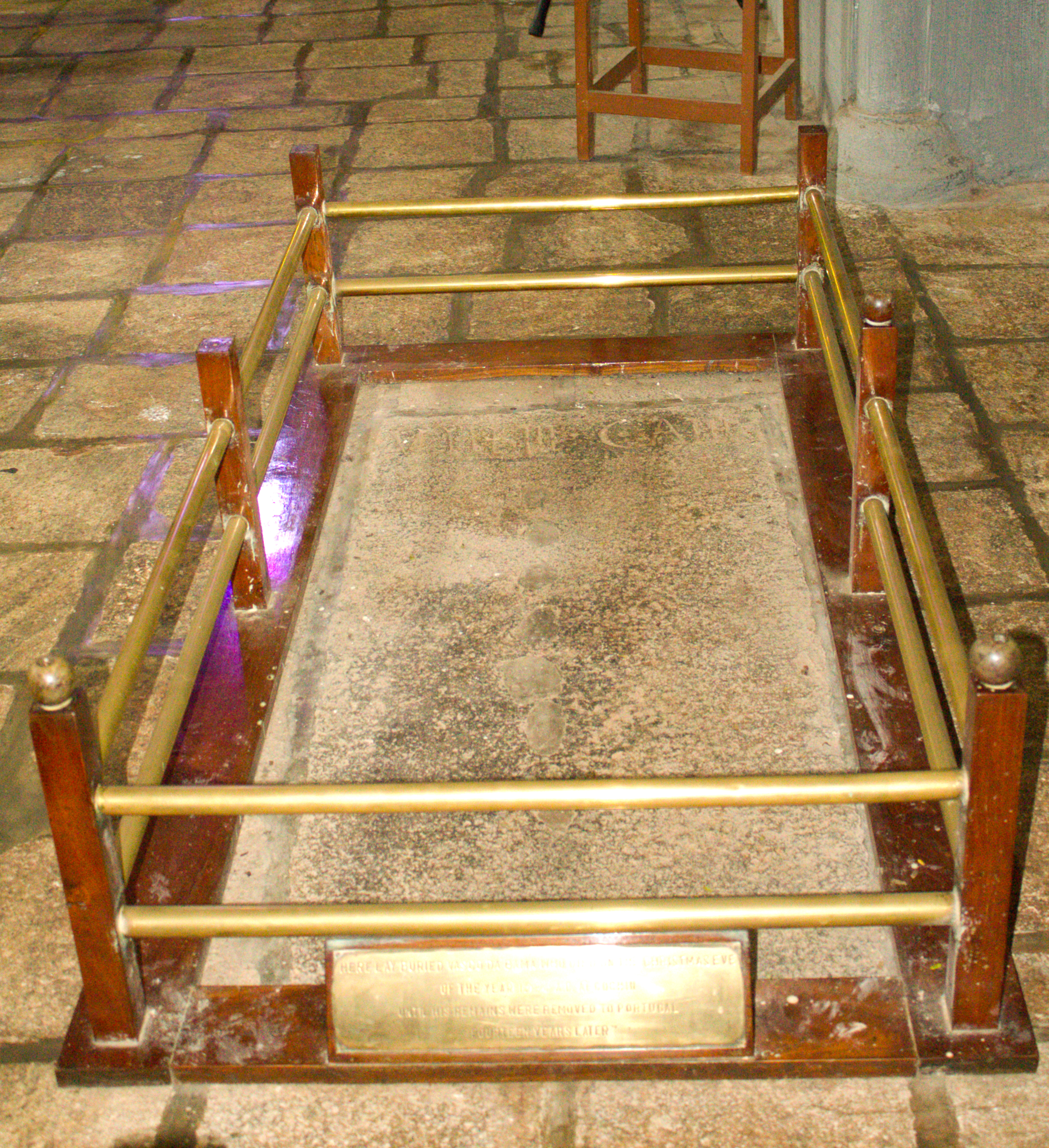 Vasco da Gama's Original Tomb at St. Francis Church, Fort Kochi